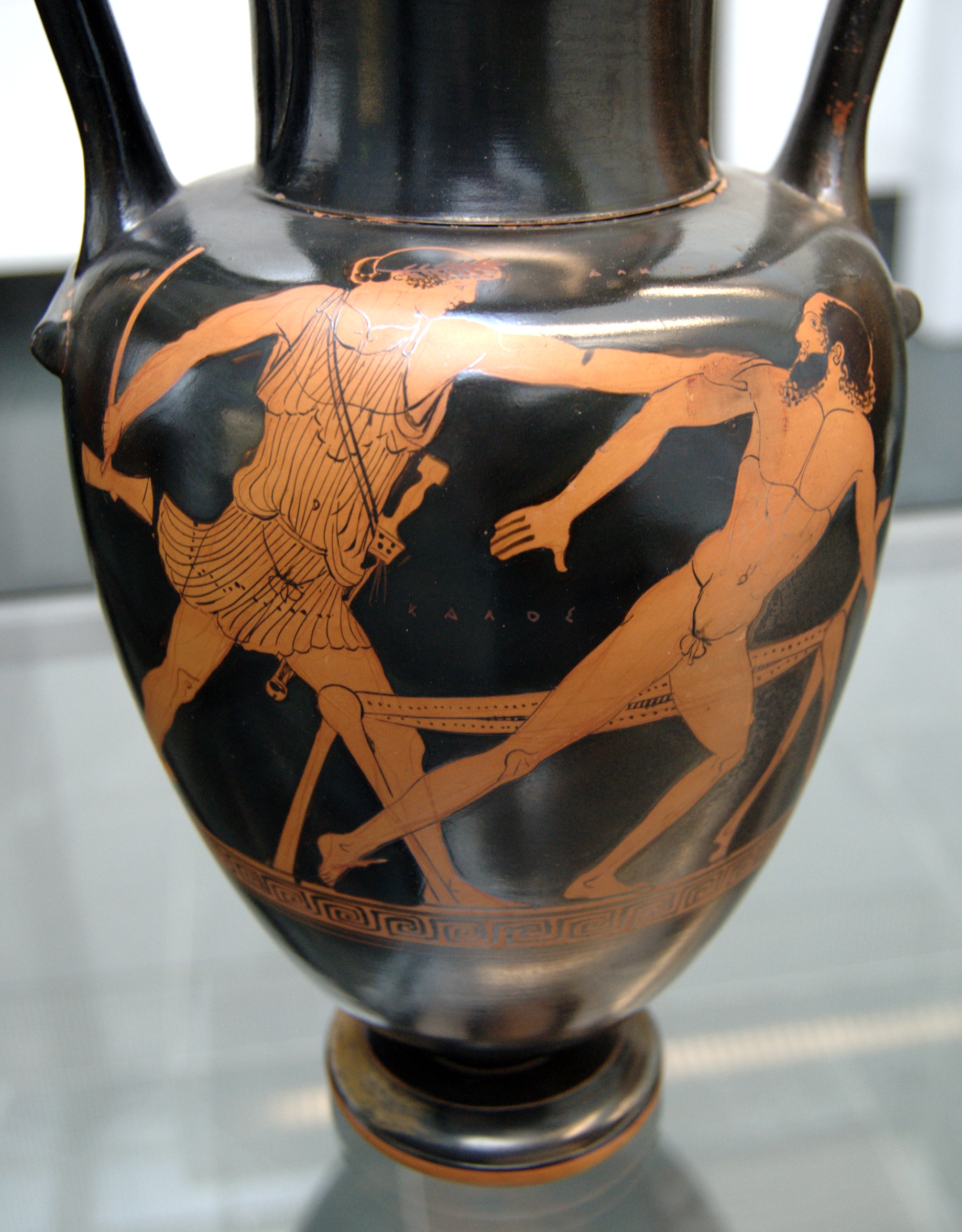 Theseus and Procrustes. Side A from an Attic red-figure neck-amphora, 470–460 BC. From Nola.